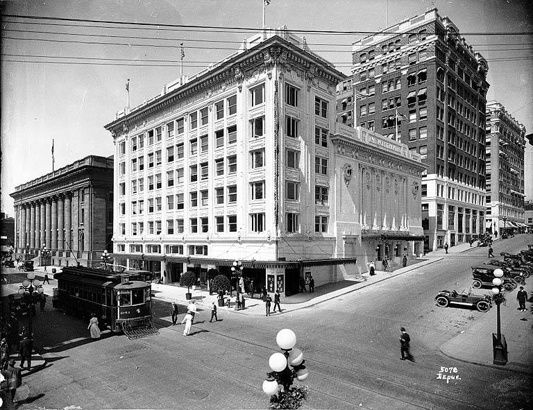 Pantages Theatre, Seattle, Washington, ca. 1917 Photographer: Depue, Earl B. Subjects (LCSH): Pantages Theatre (Seattle, Wash.) Vaudeville--Washington (State)--Seattle Third Avenue (Seattle, Wash.) University Street (Seattle, Wash.) Central business districts--Washington (State)--Seattle Digital Collection: Seattle Photograph Collection Item Number: SEA0408 Persistent URL: Visit Special Collections page for information on ordering a copy. University of Washington Libraries. Digital Collections